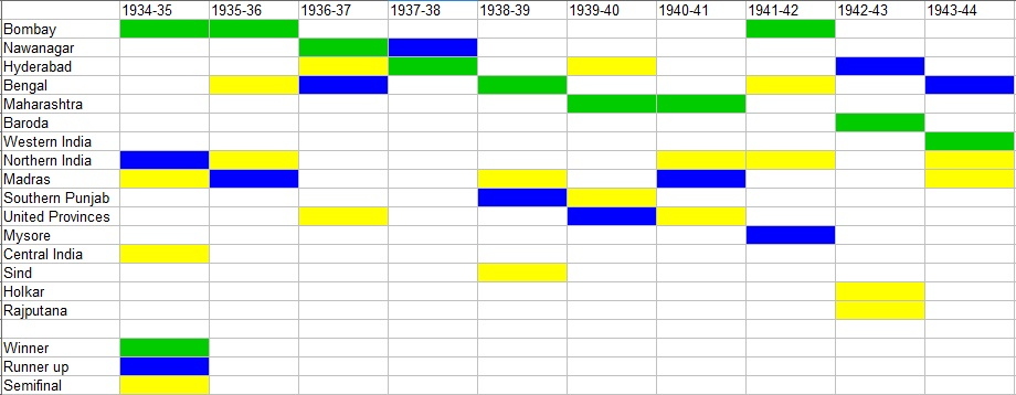 Ranji Trophy Results 1934-35 to 1943-44